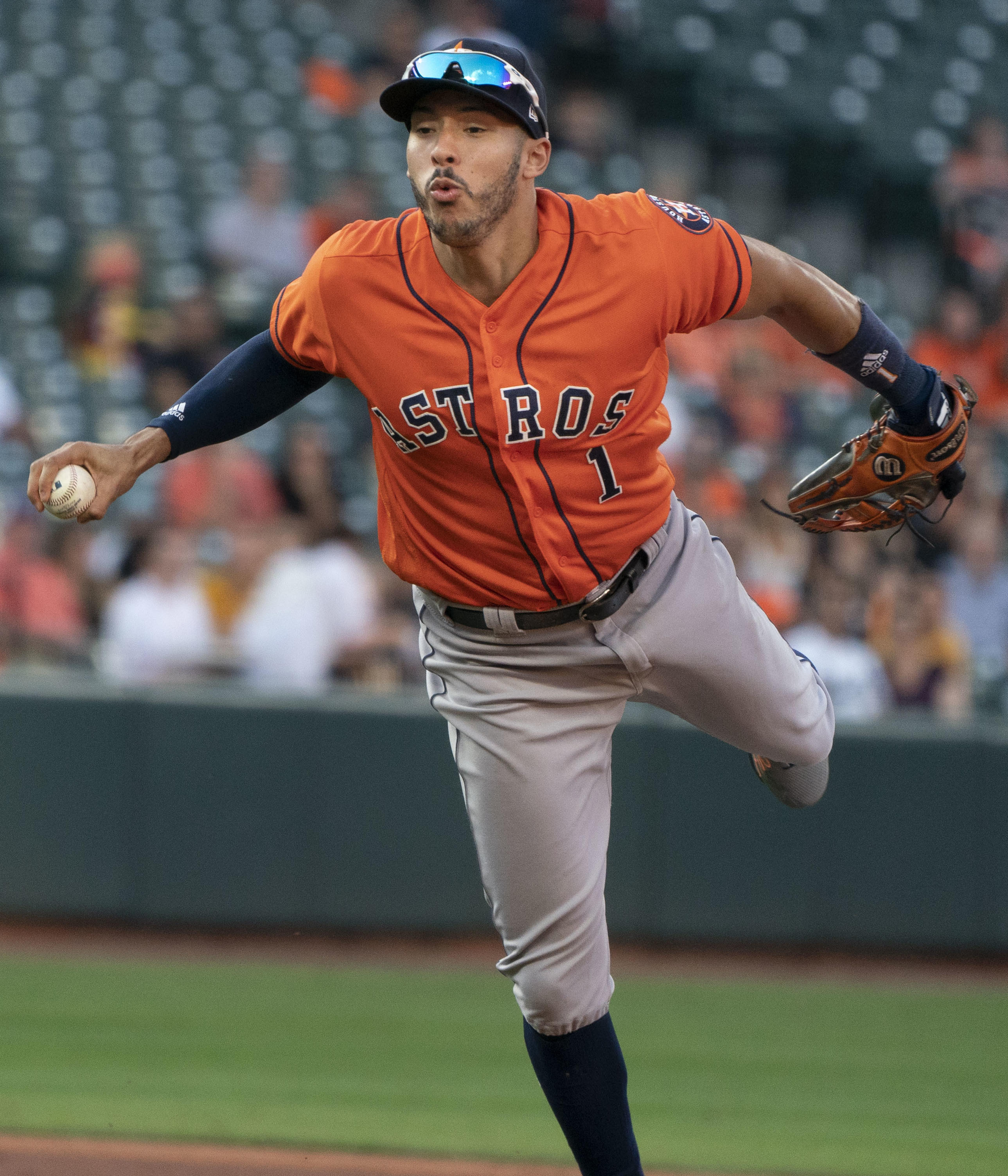 Carlos Correa with the Astros in 2018.